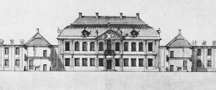 The Blue Palace in Warsaw of Countess Anna Orzelska.